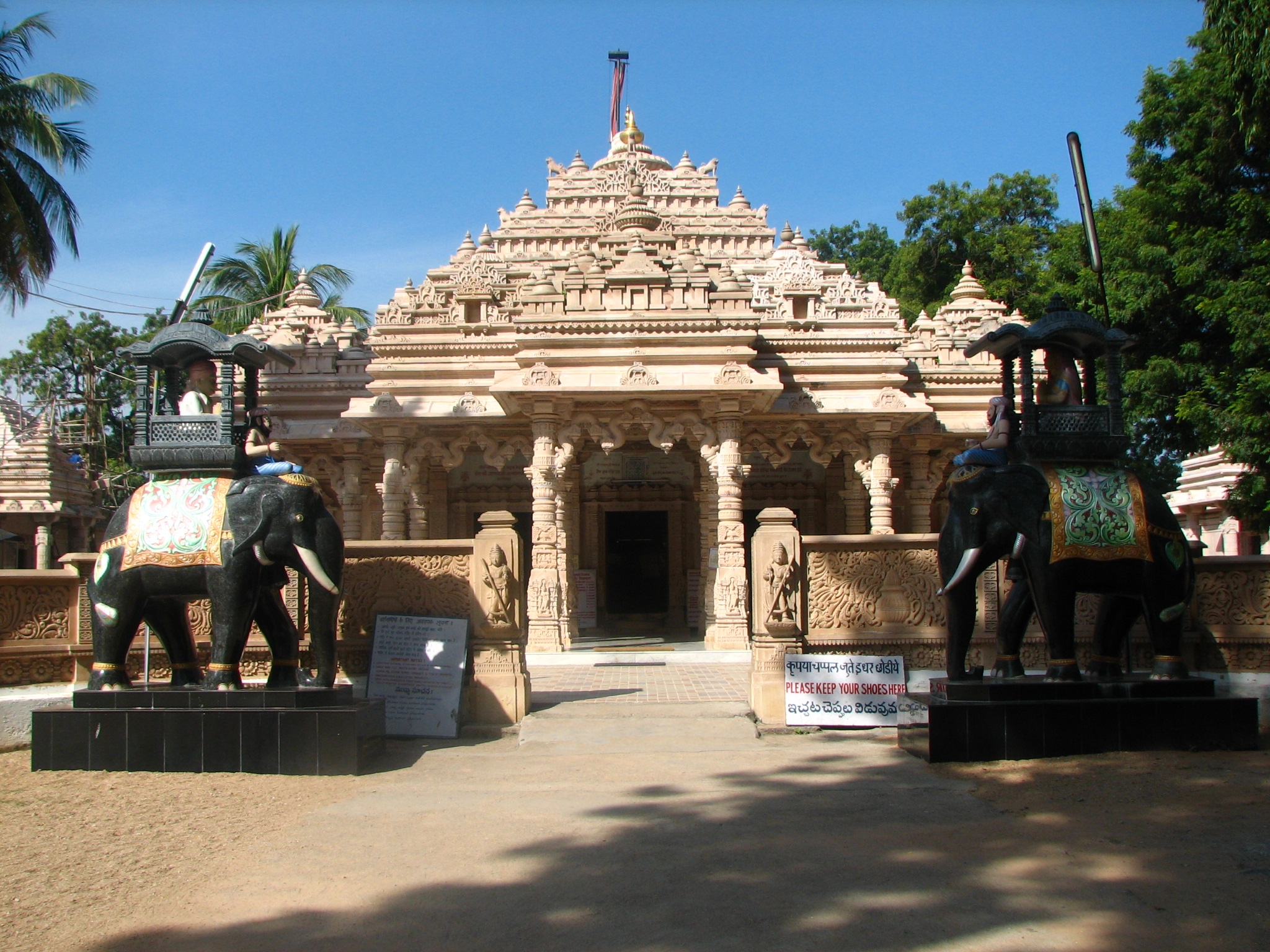 The Jain Temple Photograph taken by Poornima Ozarkar along with me Devadas on 27 October 2007 at Kolupaka. Since there is no picture of this Jain temple available in the public domain, it makes sense to make it accessible for everyone.